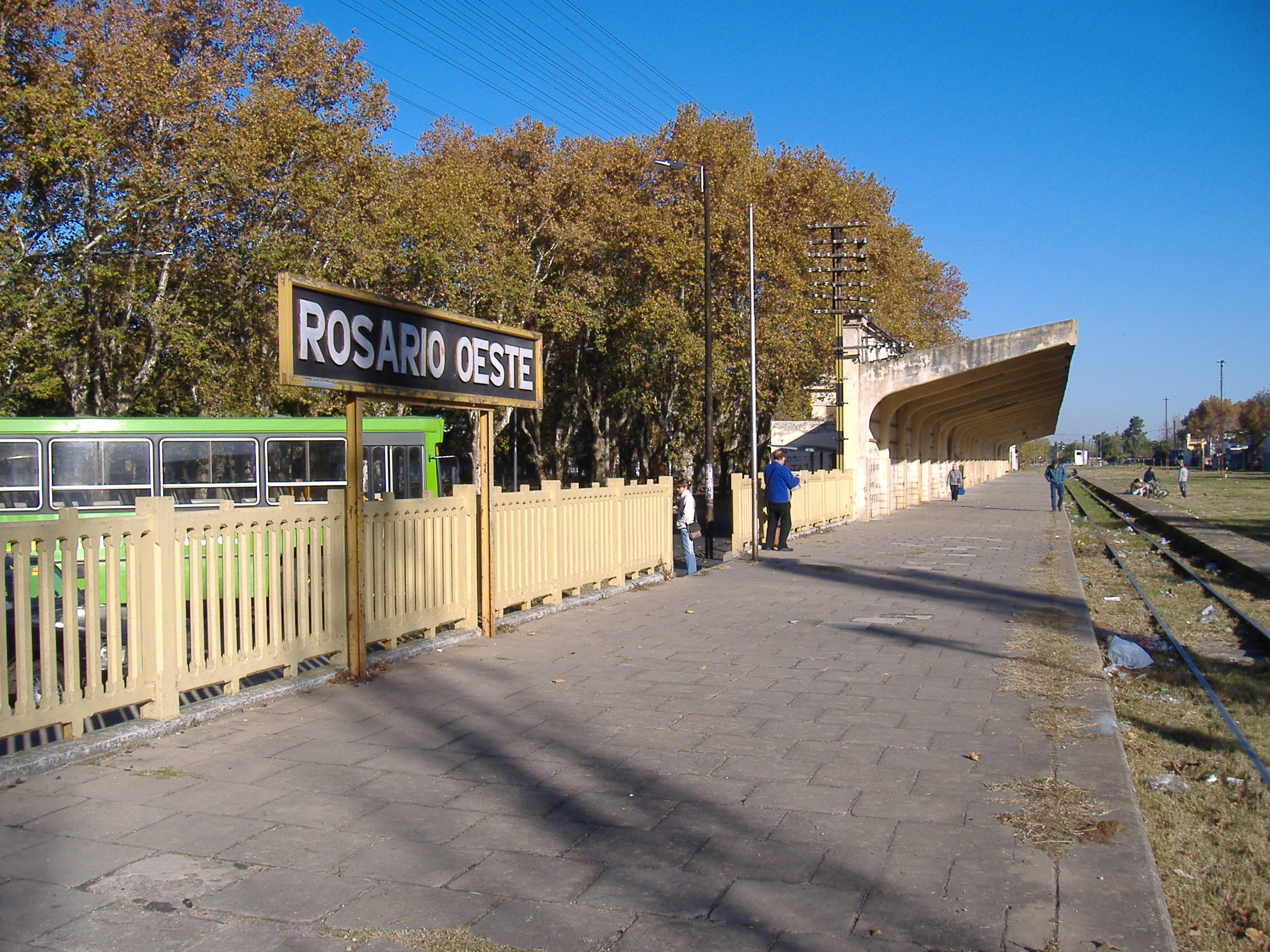 Rosario Oeste railway station, in Rosario, province of Santa Fe, Argentina. The original station was a wooden structure built in 1917 as a stop for the line leading west, to Córdoba, handled by the Ferrocarril Central Córdoba company. It was demolished in the mid-1940s and rebuilt. It is now practically abandoned.